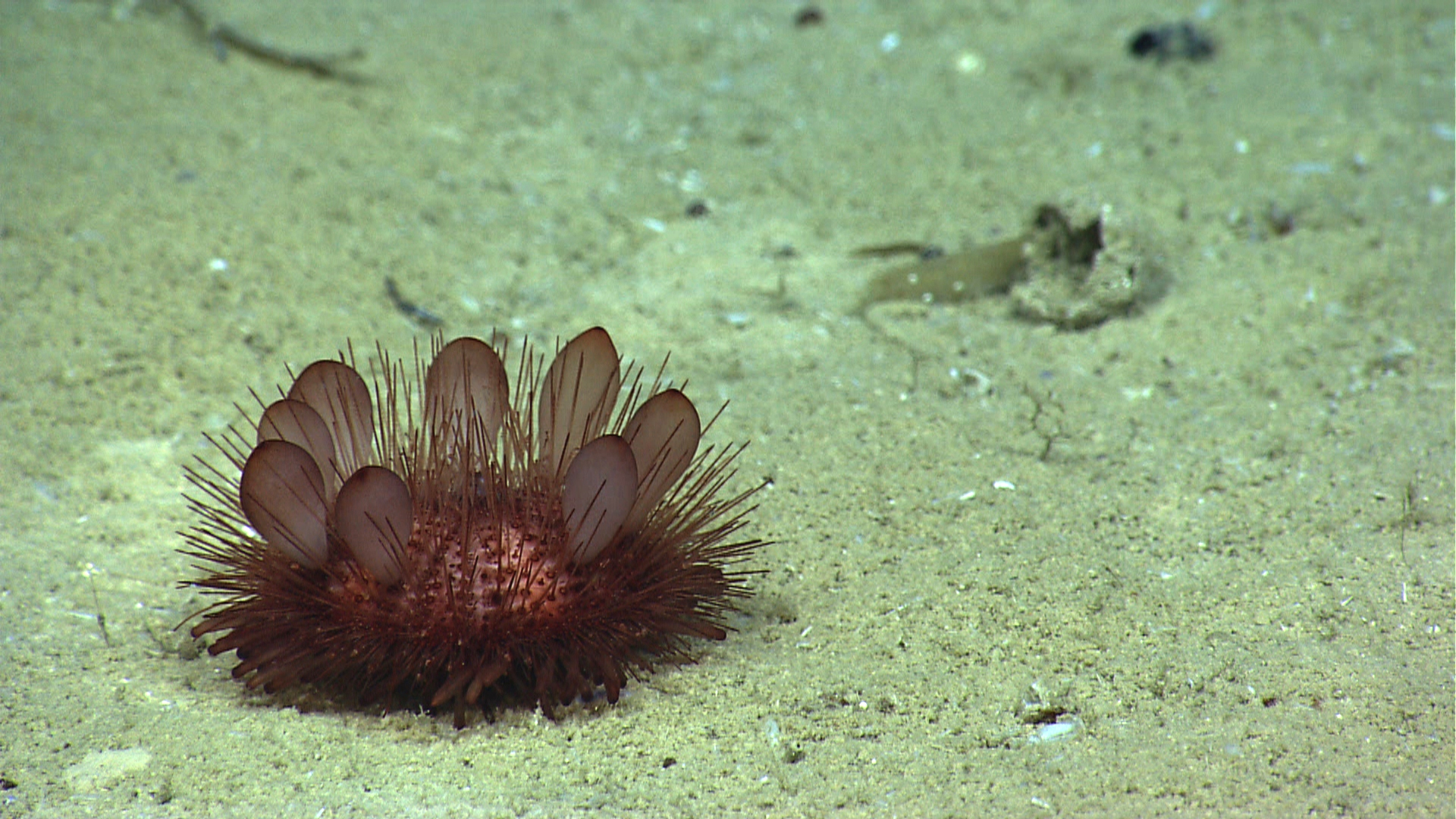 Phormosoma placenta in the abyss off to Puerto Rico. Image ID: expn3681, Voyage To Inner Space - Exploring the Seas With NOAA Collect Location: Puerto Rico, Guayanilla Canyon East Wall Photo Date: 20150416T122345Z